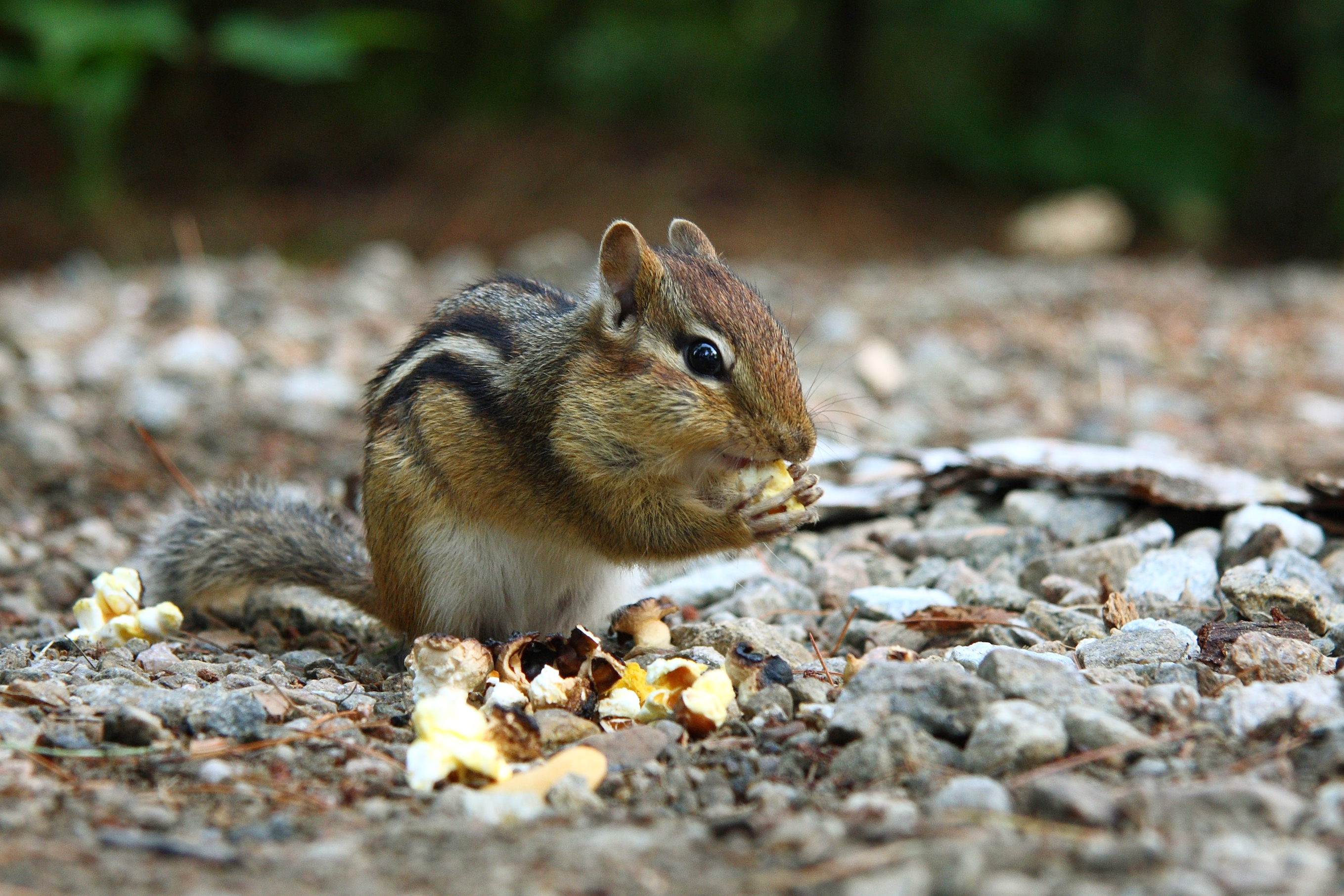 Eastern Chipmunk (Tamias striatus) feeding on leftover popcorn. Wapizagonke lake, La Mauricie National Park, Quebec, Canada